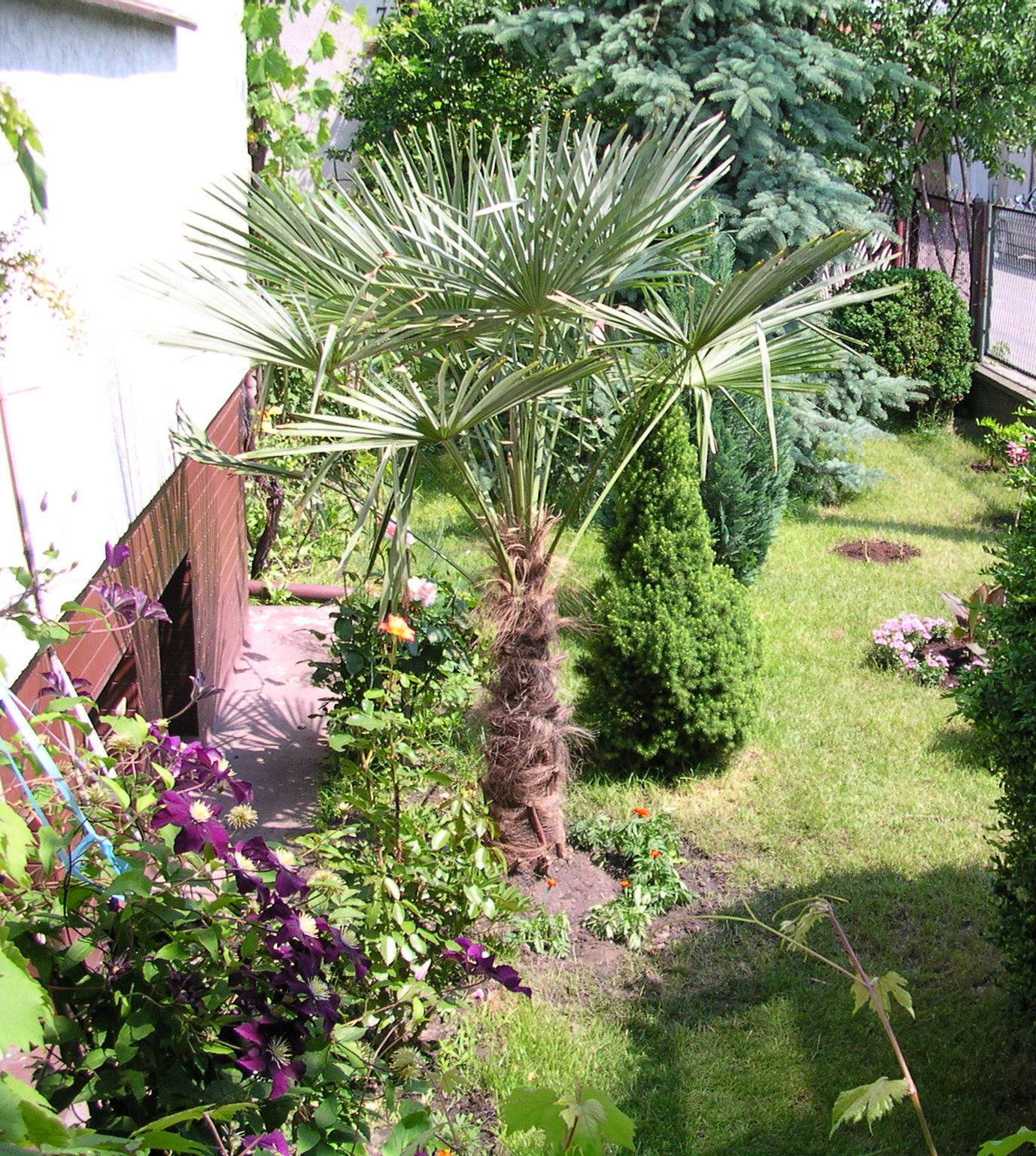 Trachycarpus fortunei in Kuyavian-Pomeranian Voivodeship, Poland